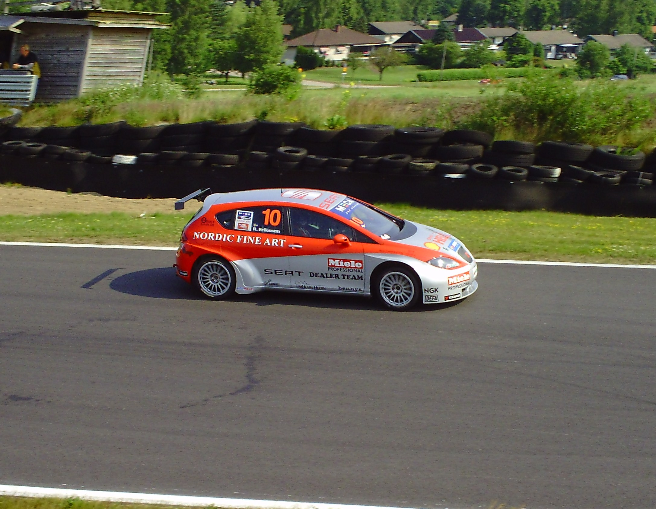 Roger Eriksson in a SEAT León for Mattias Ekström Junior Team in Swedish Touring Car Championship at Falkenbergs Motorbana 2010.